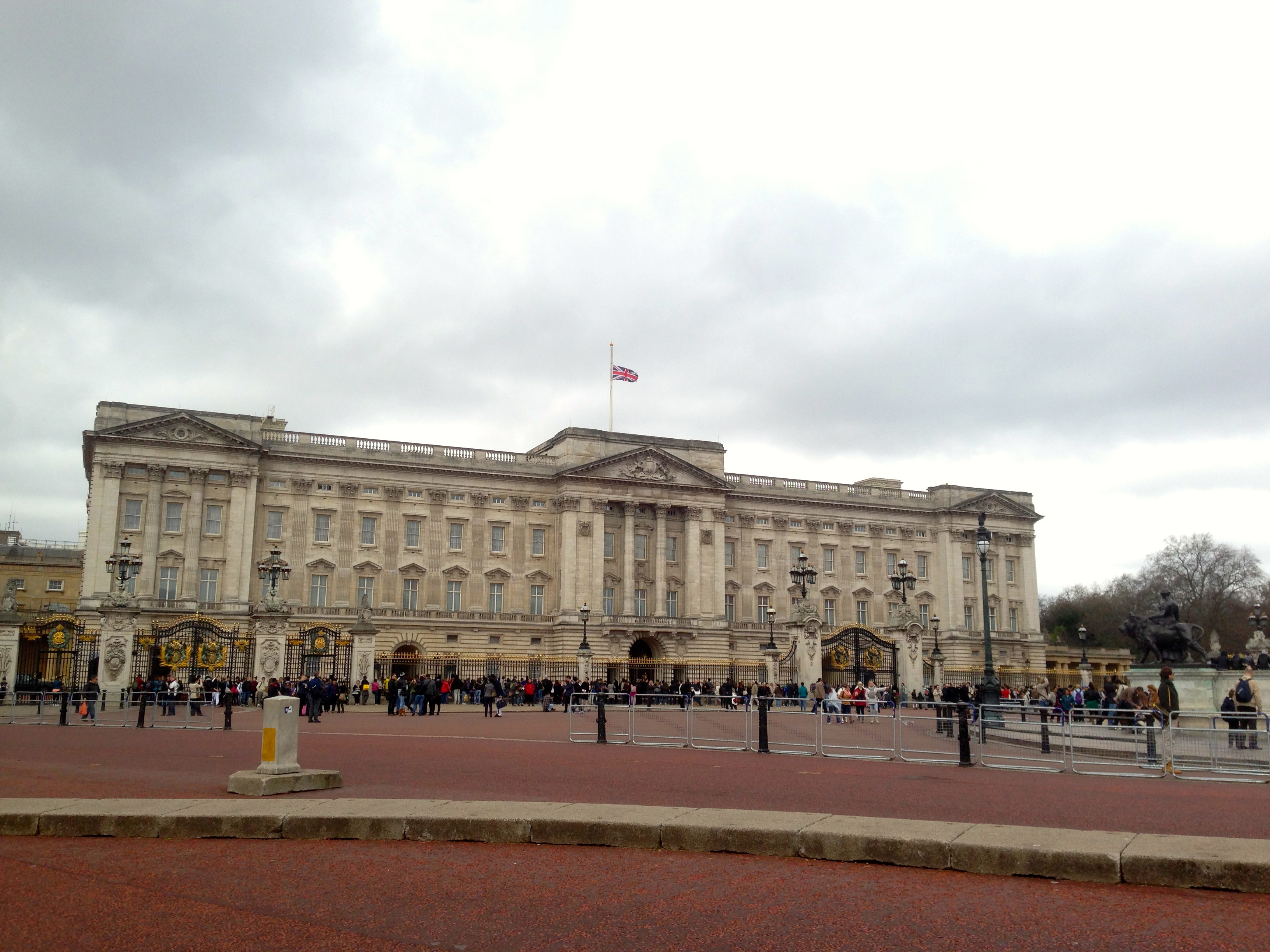 The Union Flag at Buckingham Palace lowered to half-mast on 17 April 2013 after the death of Baroness Thatcher.